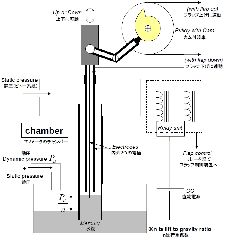 System depiction of the automatic aircombat flap made by Kawanishi Aircraft in WW2.